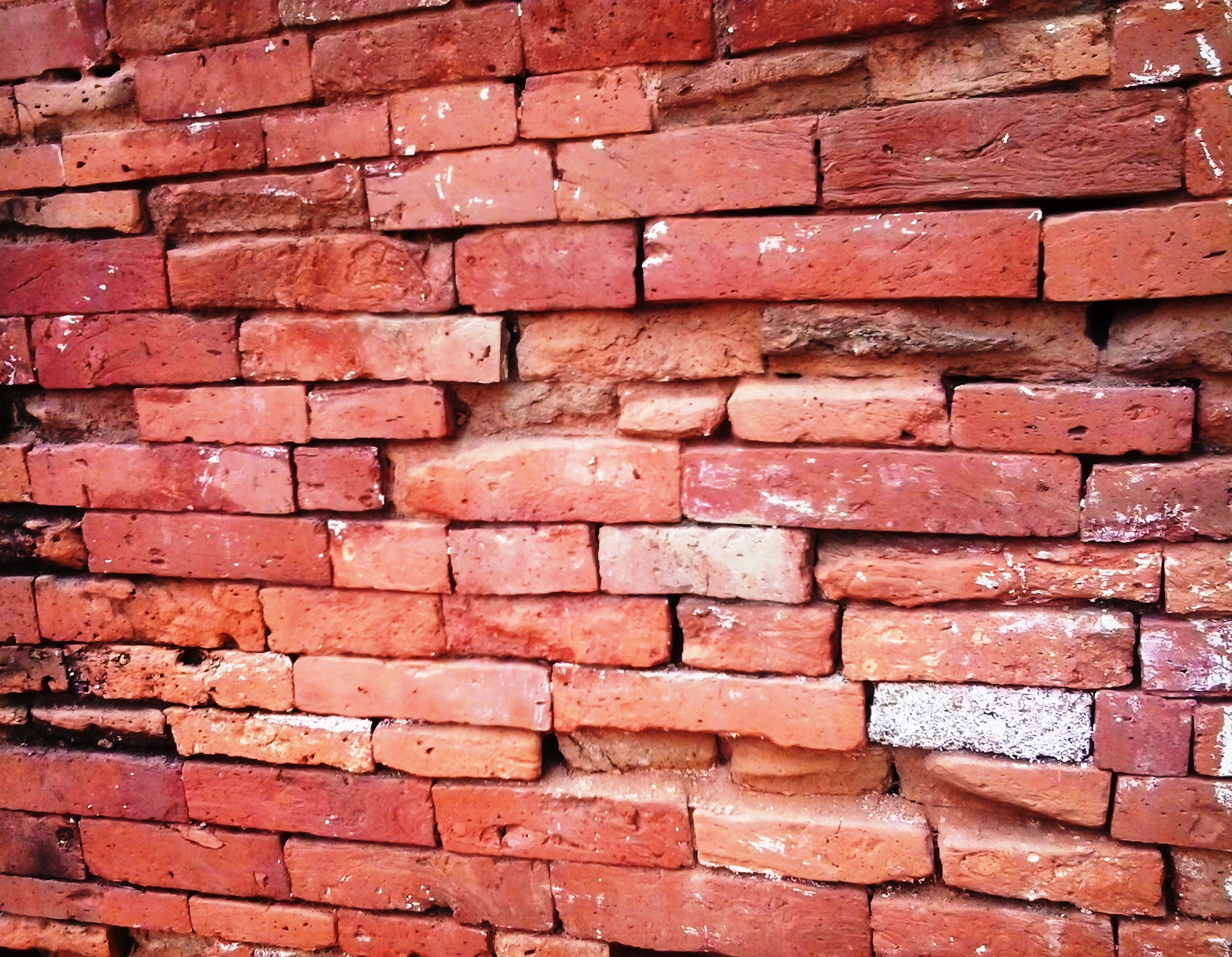 Brick wall of Goaldi mosque, Sonargaon, Narayanganj